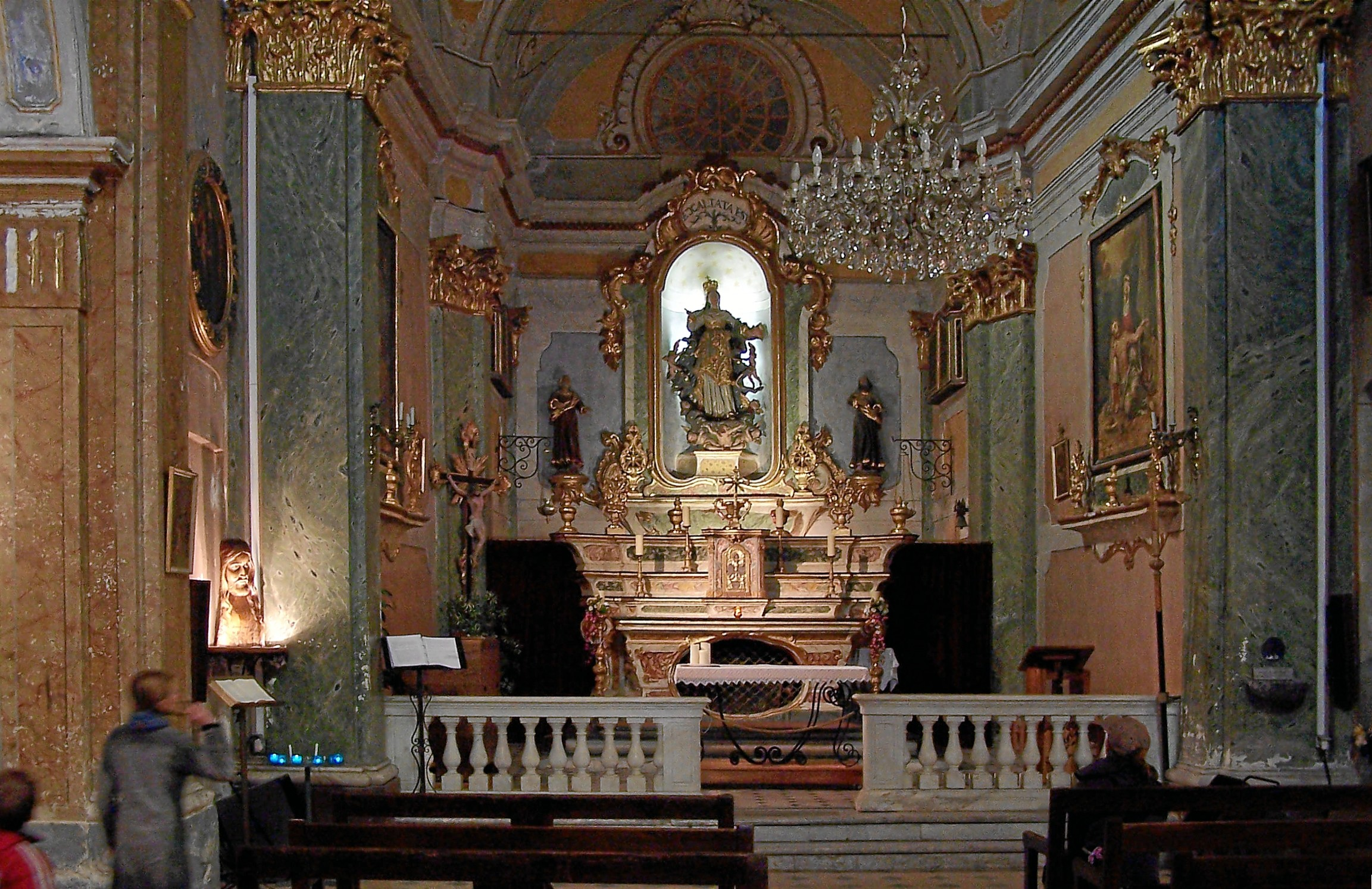 Inside the Church of Eze